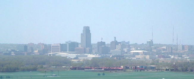 Omaha, Nebraska Skyline taken from Council Bluffs, Iowa on a humid day therefore there is a haze which I tried to remove, somewhat (poorly) in Photoshop.